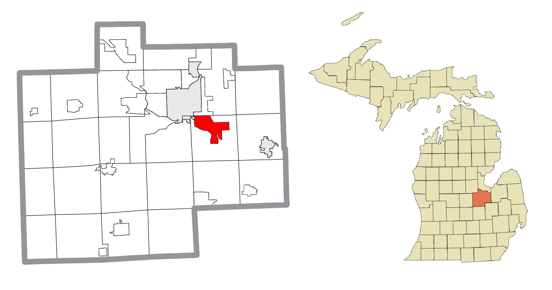 Bridgeport, MI